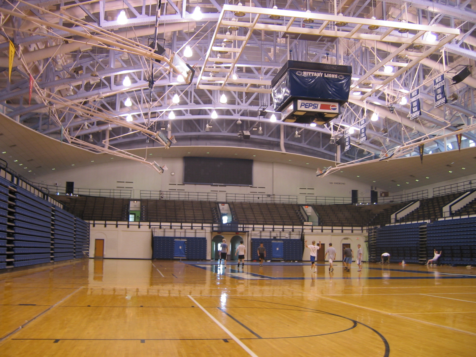 Football & Basketball Facilities Penn State Gym